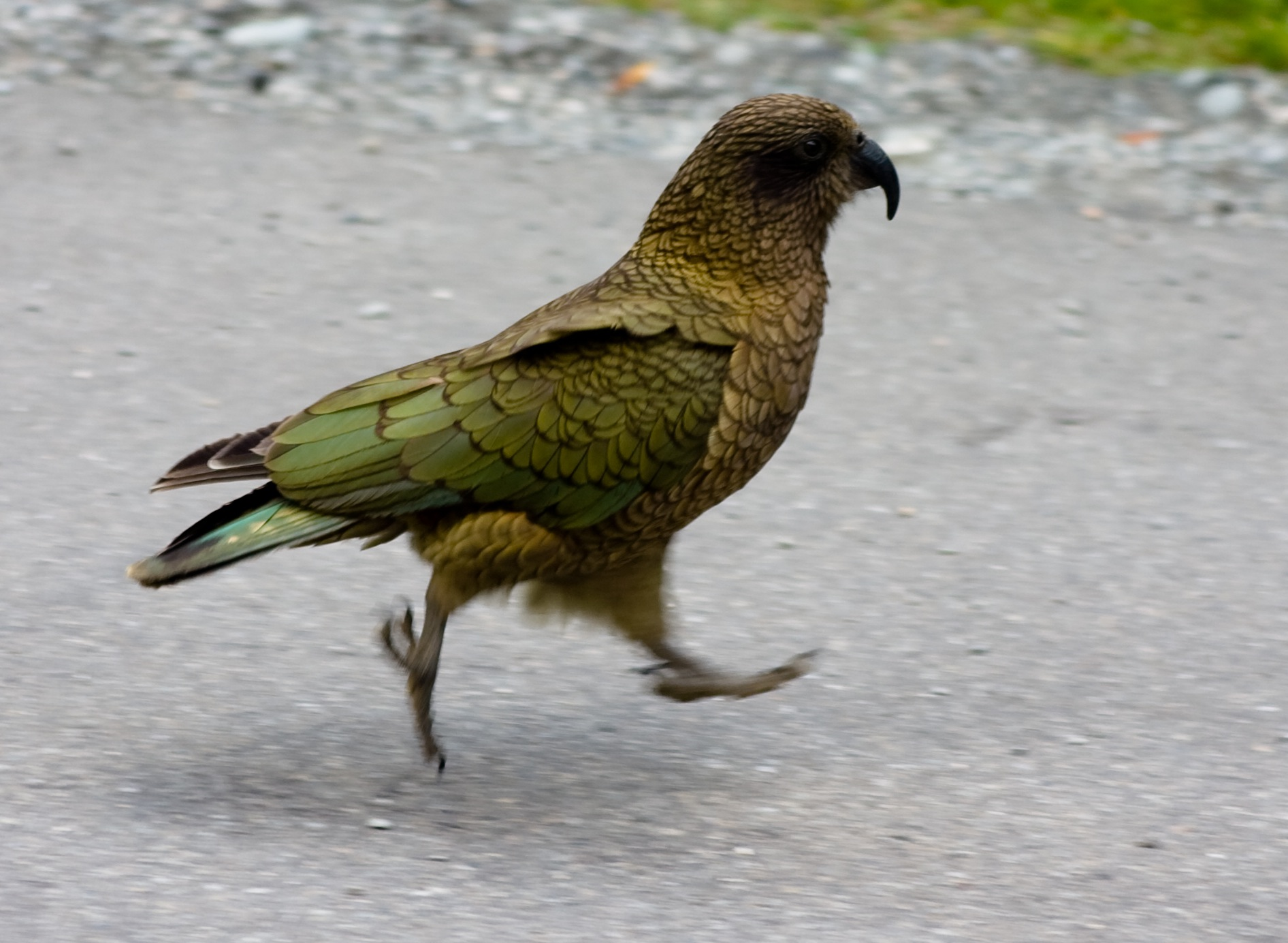 Kea (Nestor notabilis) running.